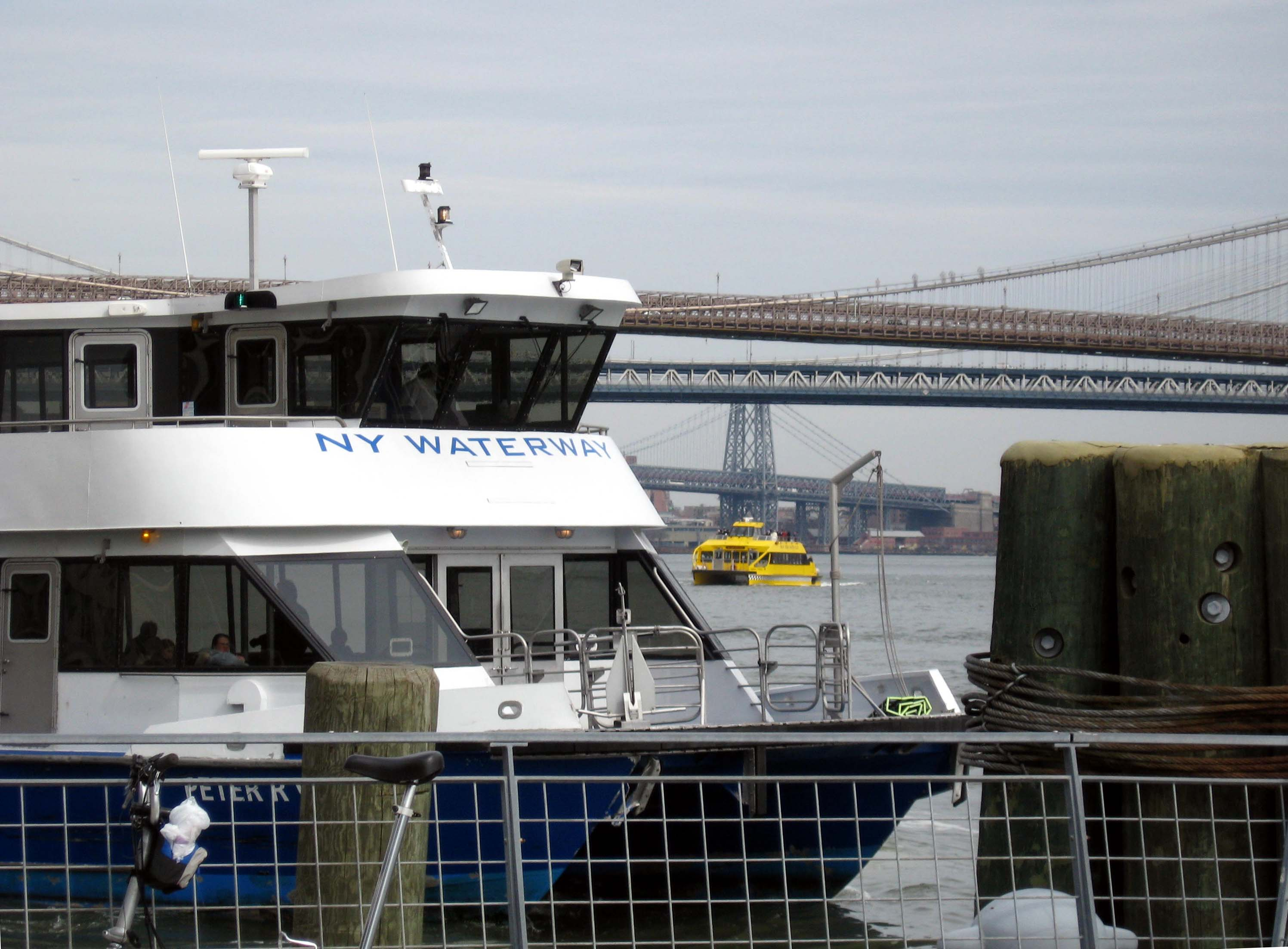 NY Waterway boat at north side of Pier 11 Wall Street. Background includes New York Water Taxi boat, Brooklyn Bridge, Manhattan Bridge, and Williamsburg Bridge. Early springtime afternoon.